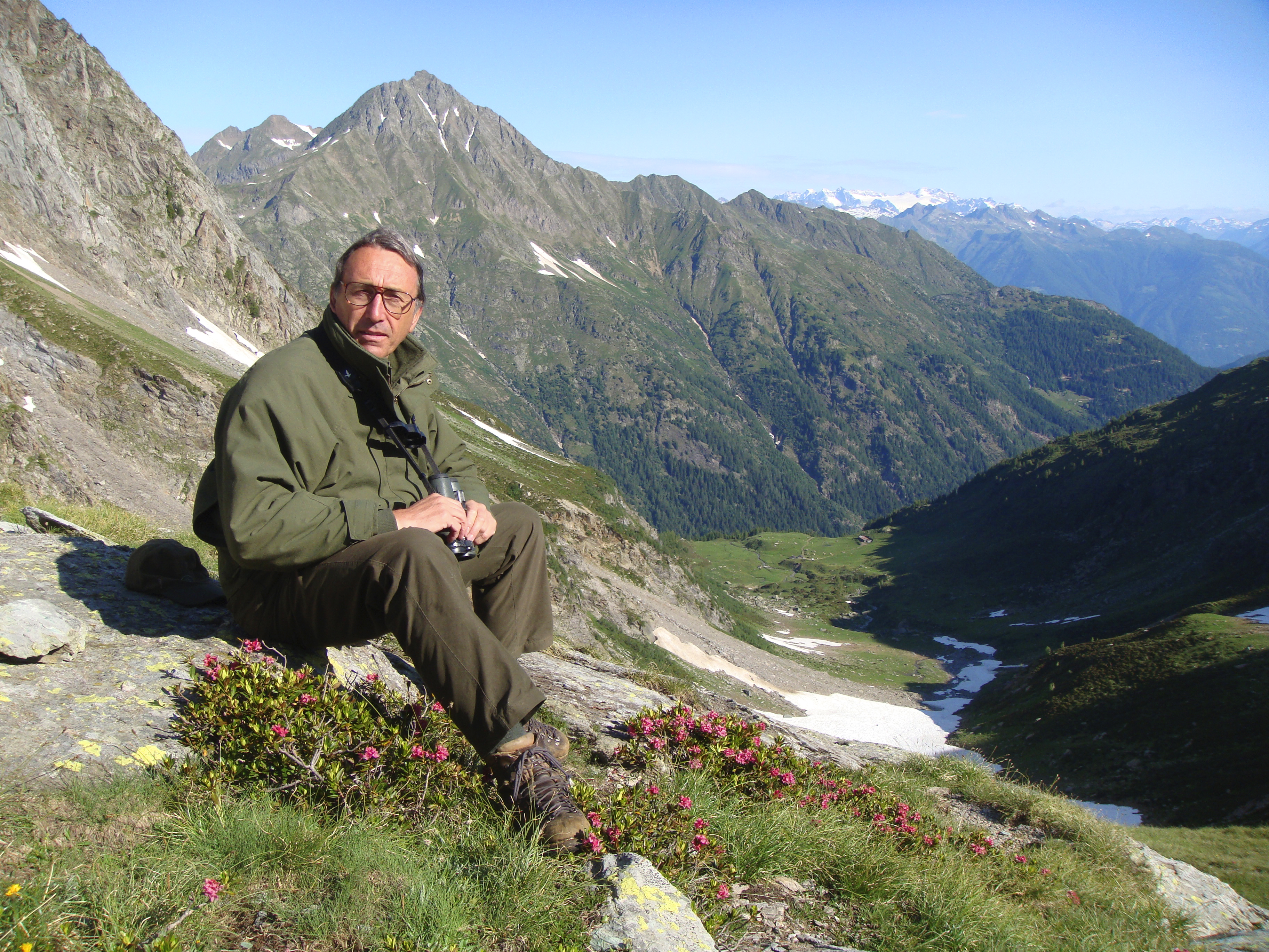 Image of Guido Tosi in Beliso Valley, 2009